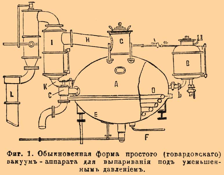 Illustration from Brockhaus and Efron Encyclopedic Dictionary (1890—1907)